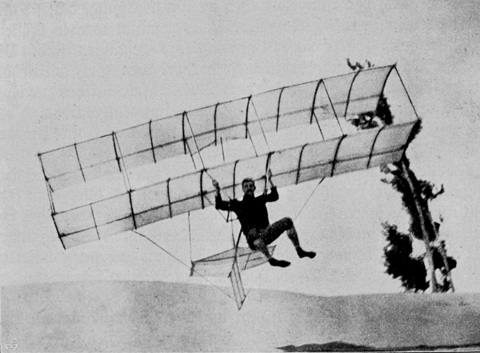 Octave Chanute's 1896 biplane hang glider flown in the Chicago area. The pilot is probably Augustus Herring.